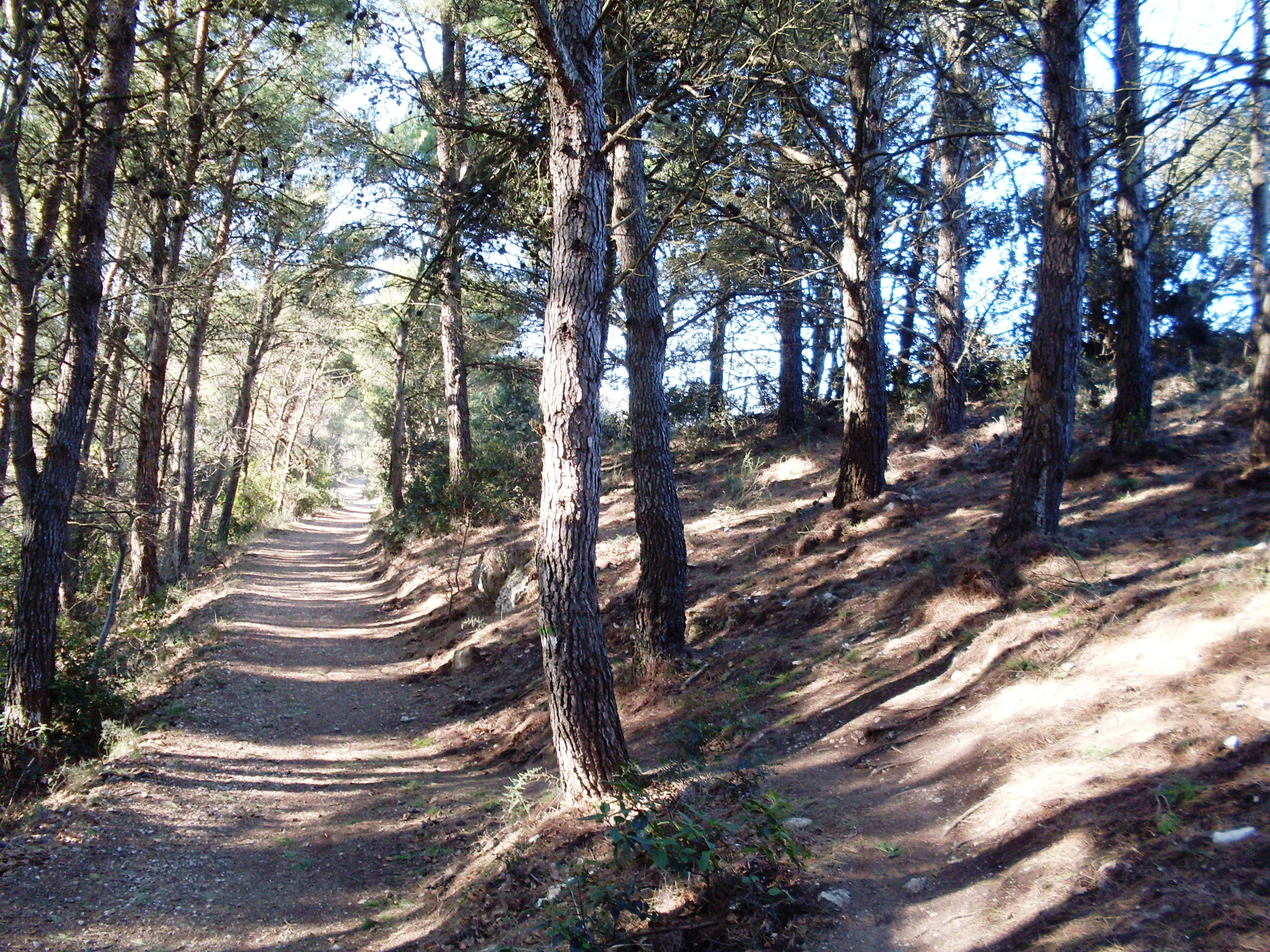 Italy Ancona Mount Conero - trees towards Great Plain